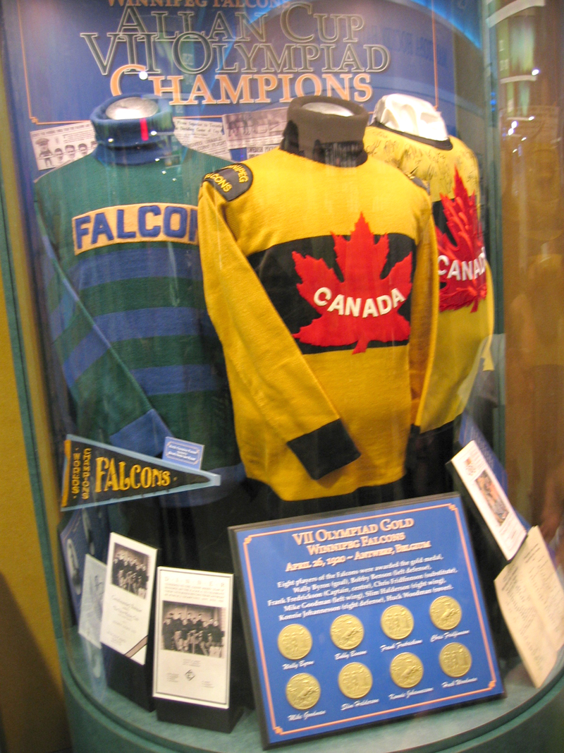 Winnipeg Falcons jersey and sweater